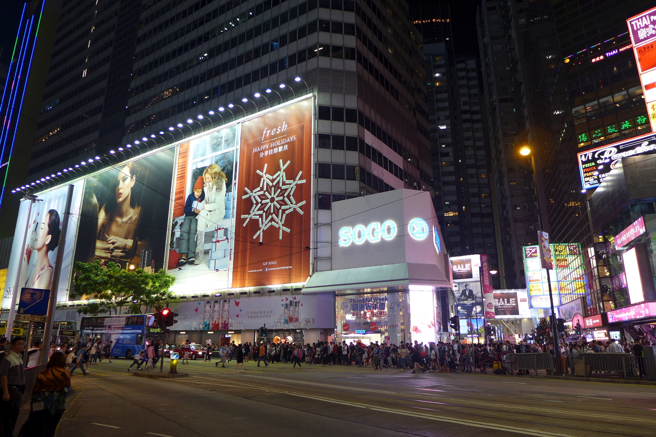 East Point Centre SOGO Night view